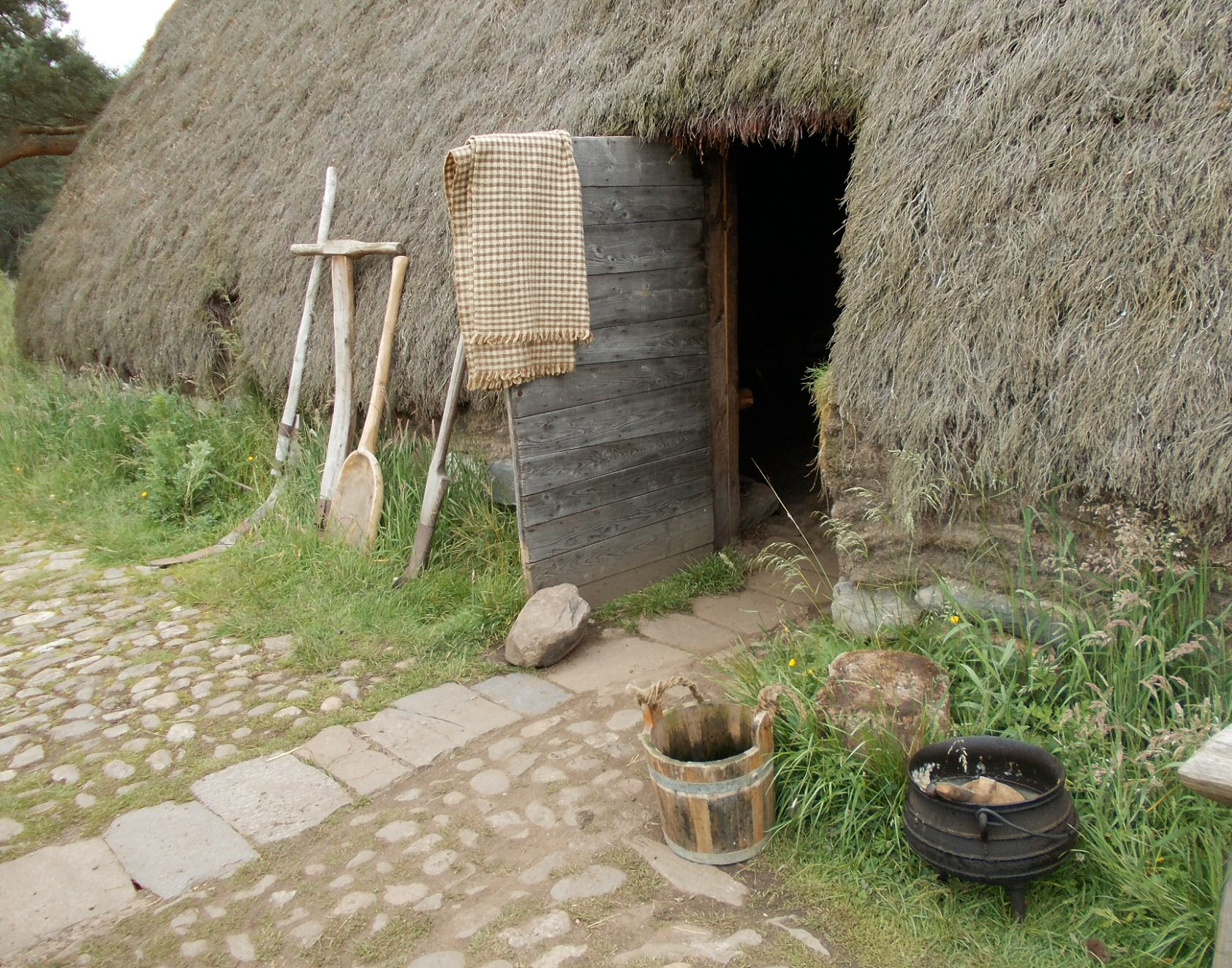 Photograph of a thatched house in the 'Baile Gean' township, Highland Folk Museum, Newtonmore, Scotland